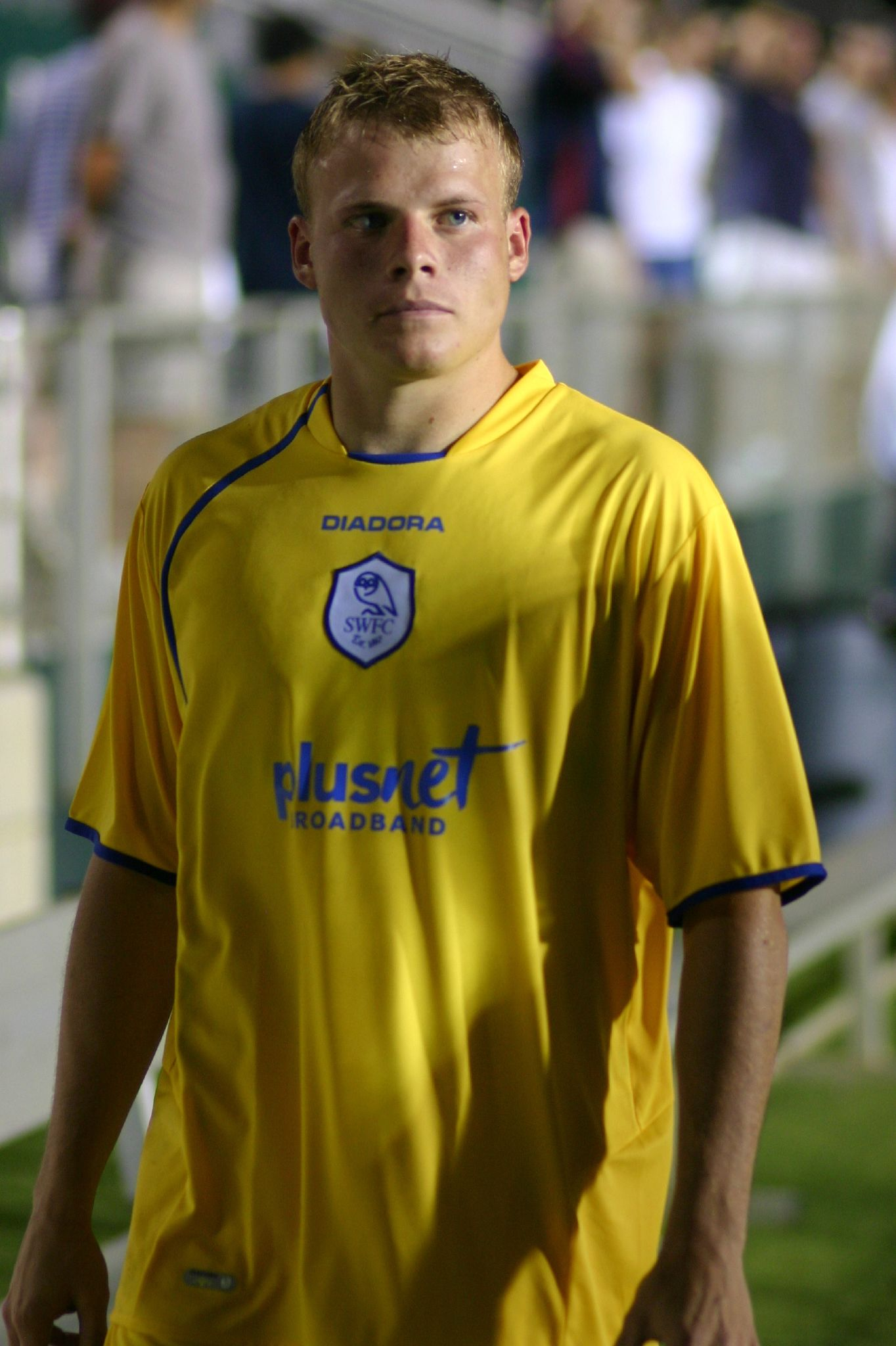 Frank Simek in SWFC's pre-season tour of the USA. USL All-Stars v Sheffield Wednesday, 19th July 2006.